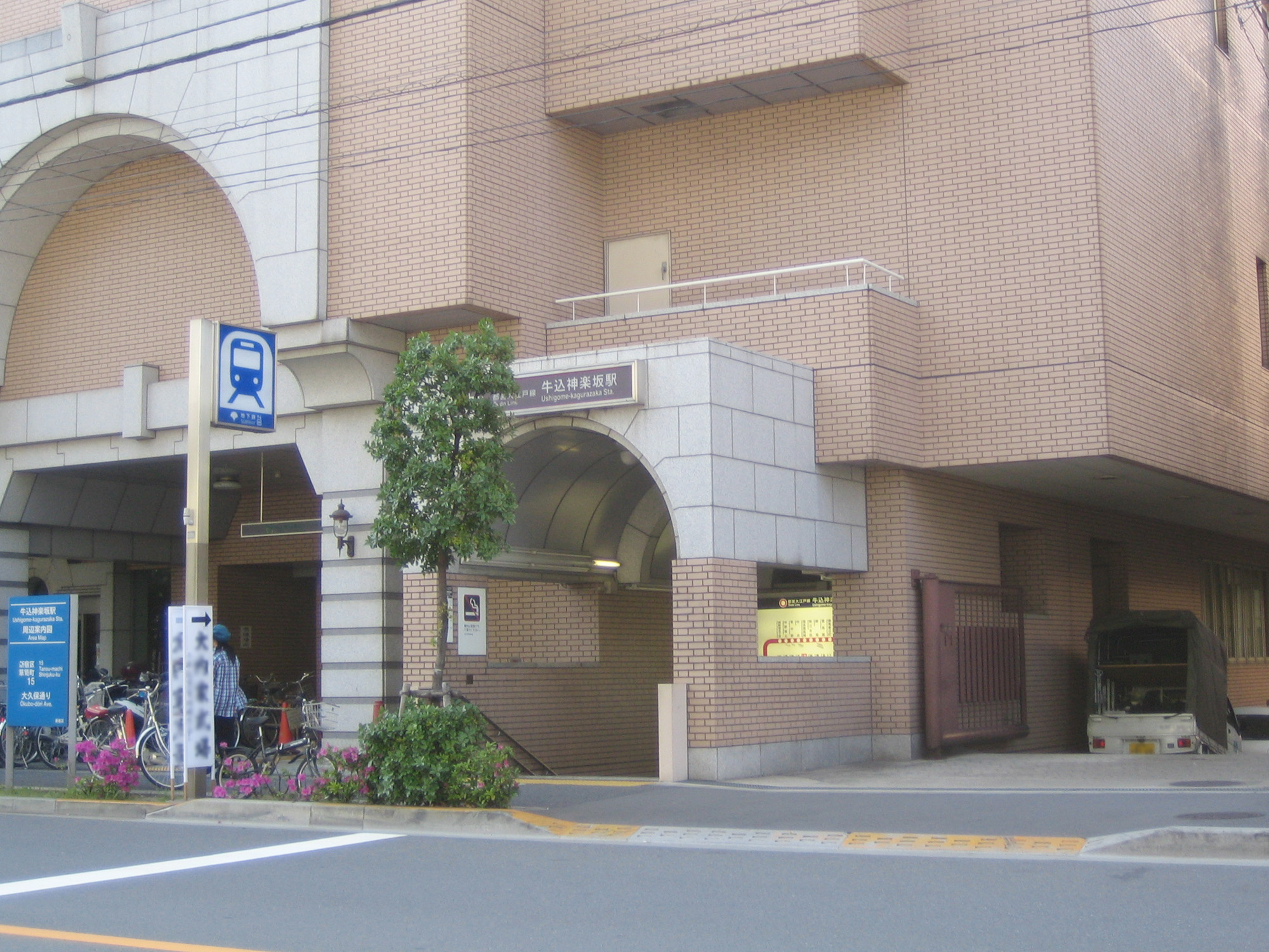 A1 exit, Ushigome-Kagurazaka Station, Tokyo, Japan